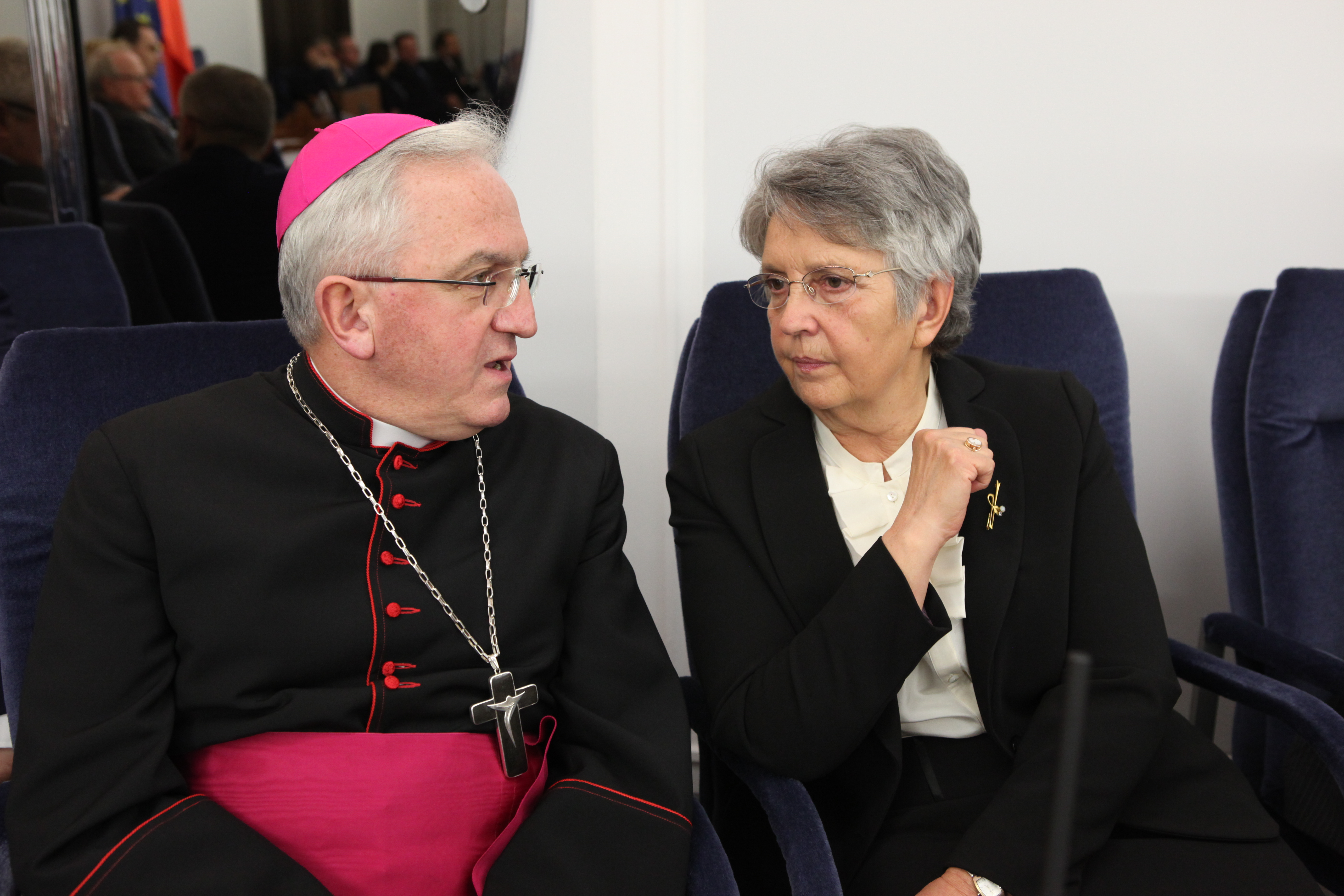 Celestino Migliore and Alicja Grześkowiaki. 1st sitting the Polish Senate of the 9th term